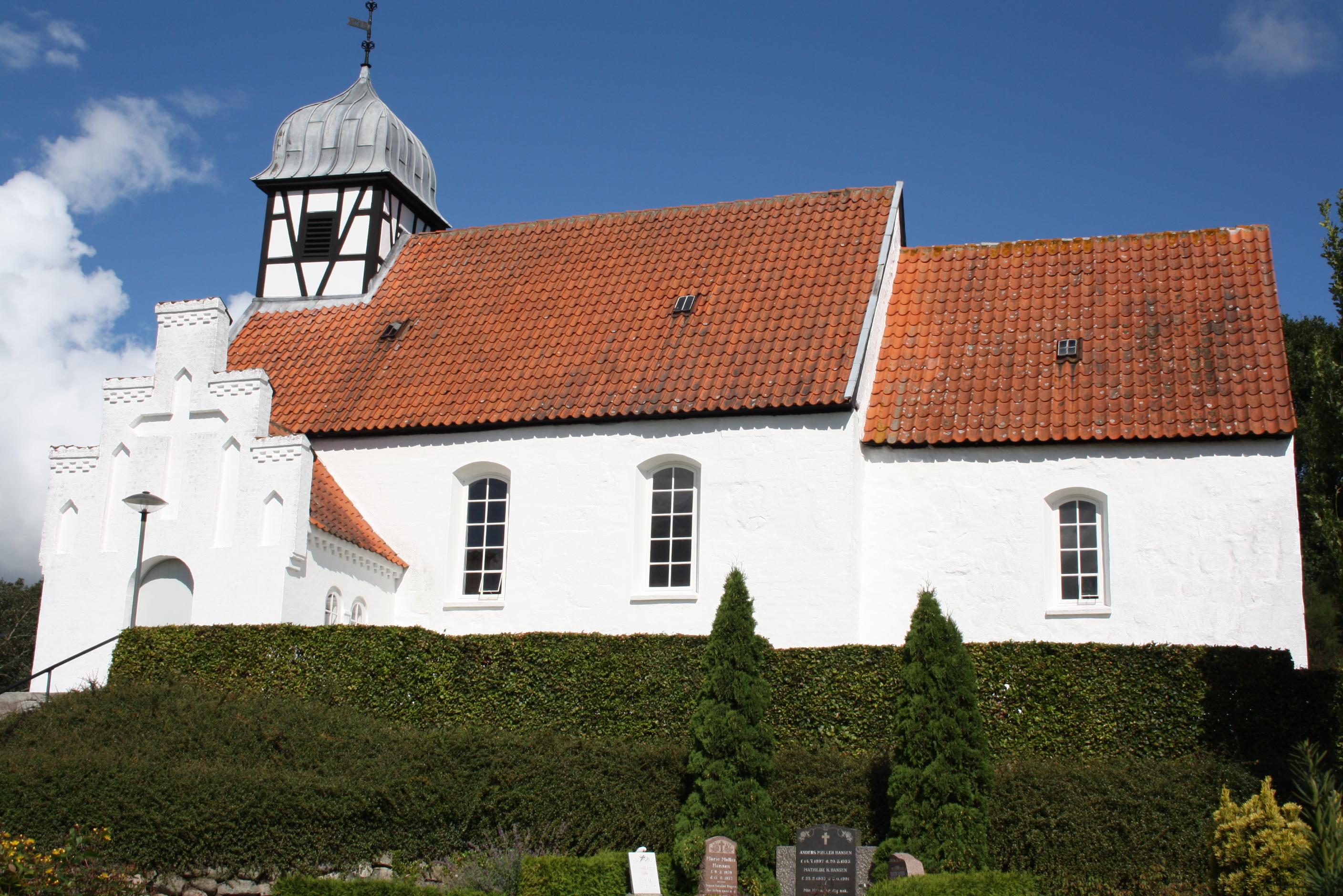 Vejrum church, Viborg municipality, Denmark